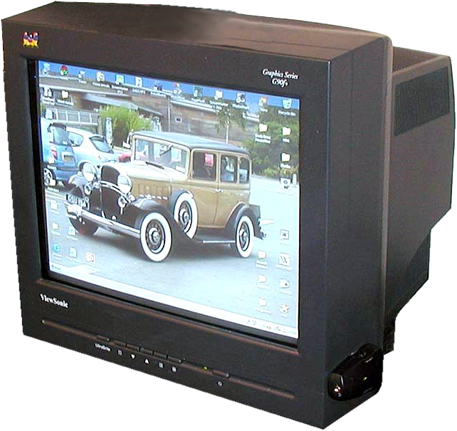 Viewsonic CRT computer monitor.